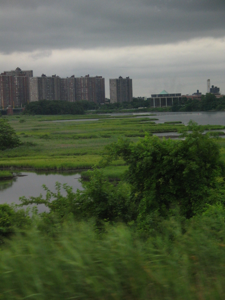 The picturesque Northeaastern end of Bronx, and the Hutchinson River.